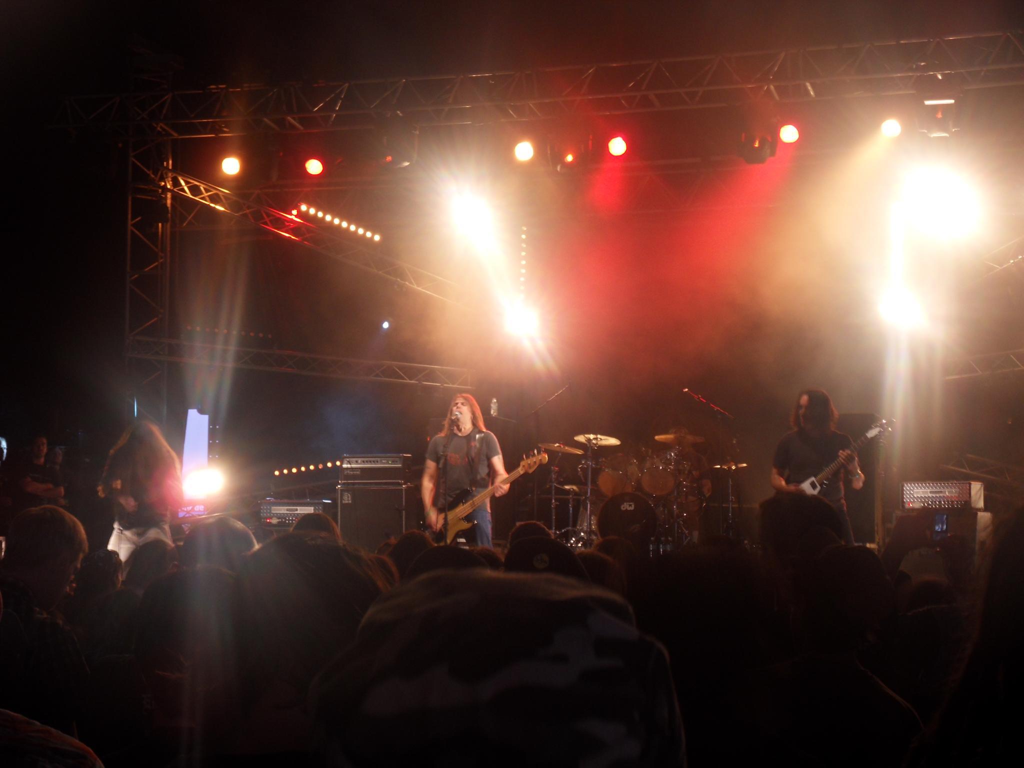 British grindcore band Repulsion.